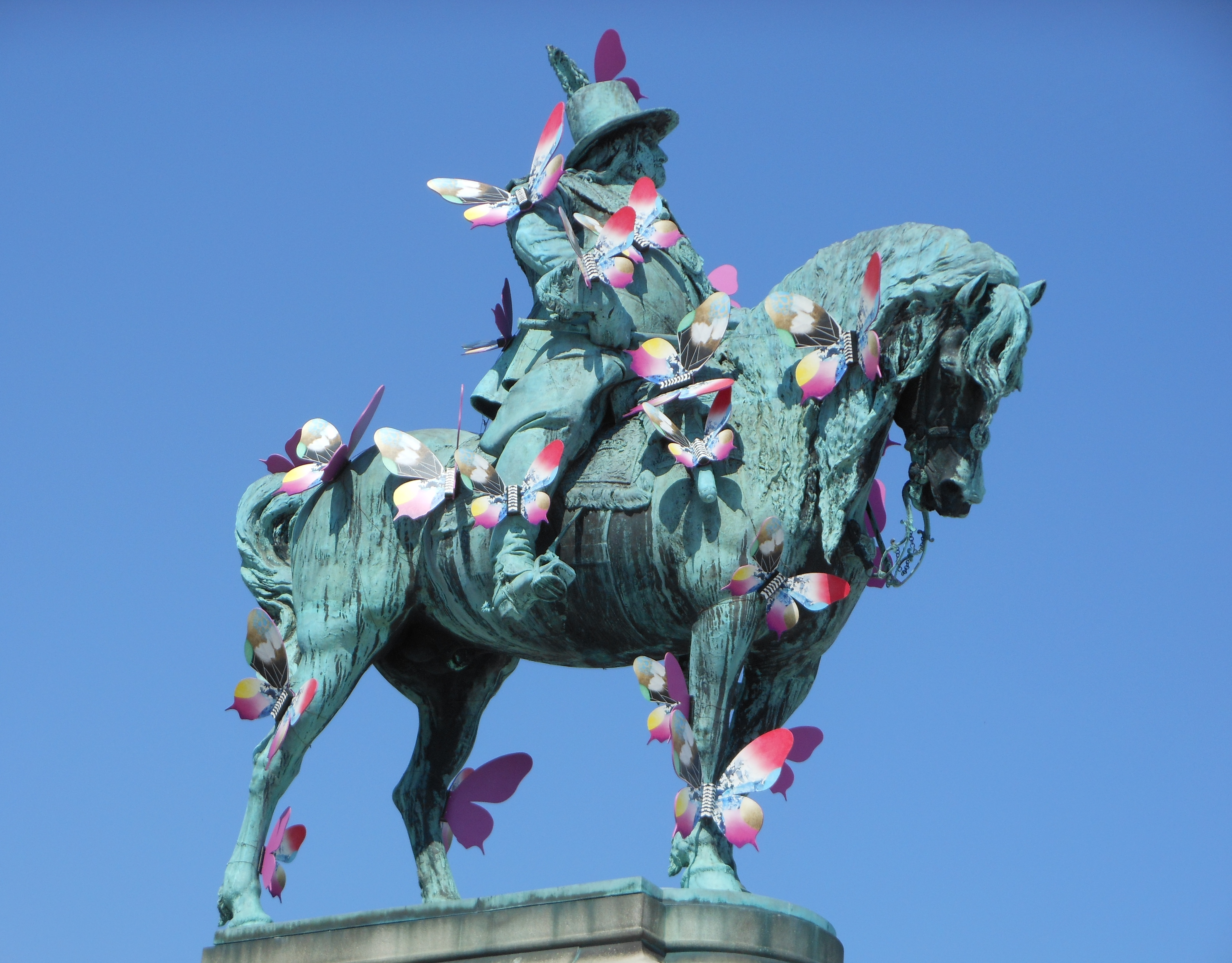 Carl X Gustav's statue in Malmö has been covered with butterflies, symbol of the 2013 Eurovision, to celebrate the event.